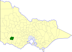 Location of the former Shire of Mount Rouse within Victoria.